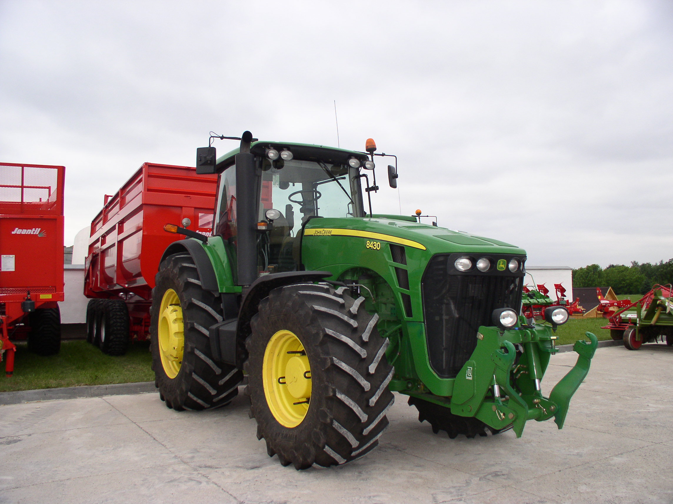 Tractor John Deere 8430. Agriculture Expo in Minsk, Belarus.